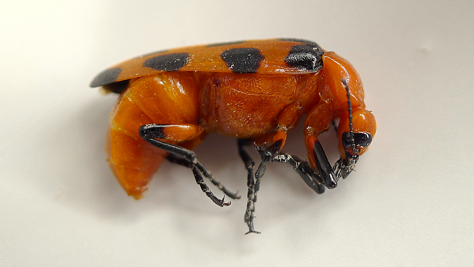 Cissites maculata (Swederus, 1787), Meloidae, Atlantic forest, northeastern Bahia, Brazil